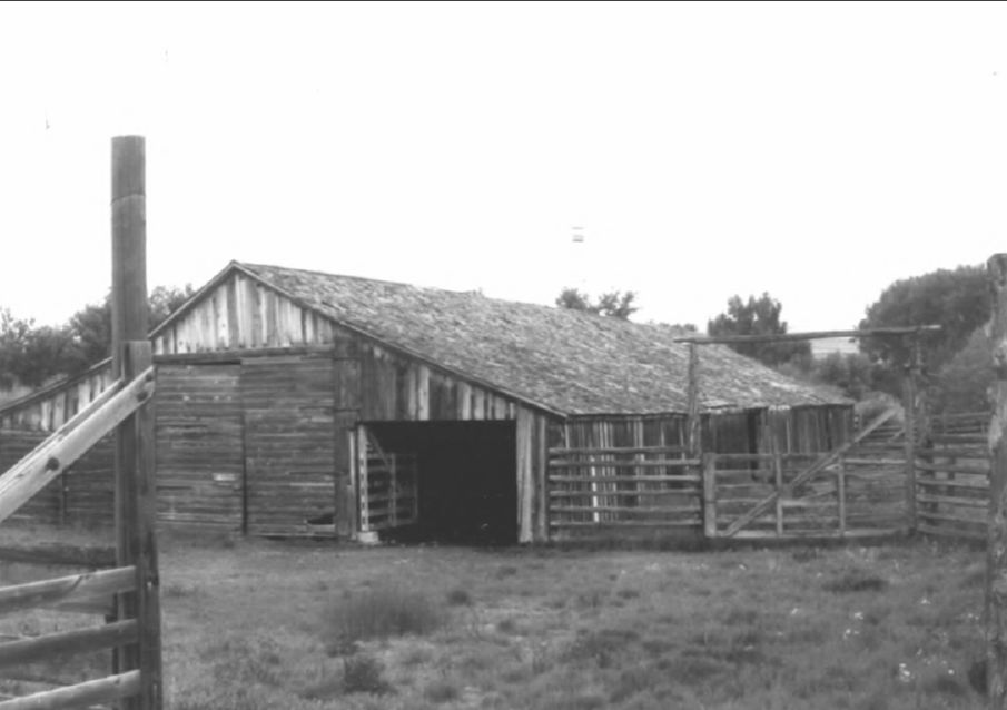 Northwest end of the “Long Barn” at the P Ranch in the Malheur National Wildlife Refuge near Frenchglen, Oregon